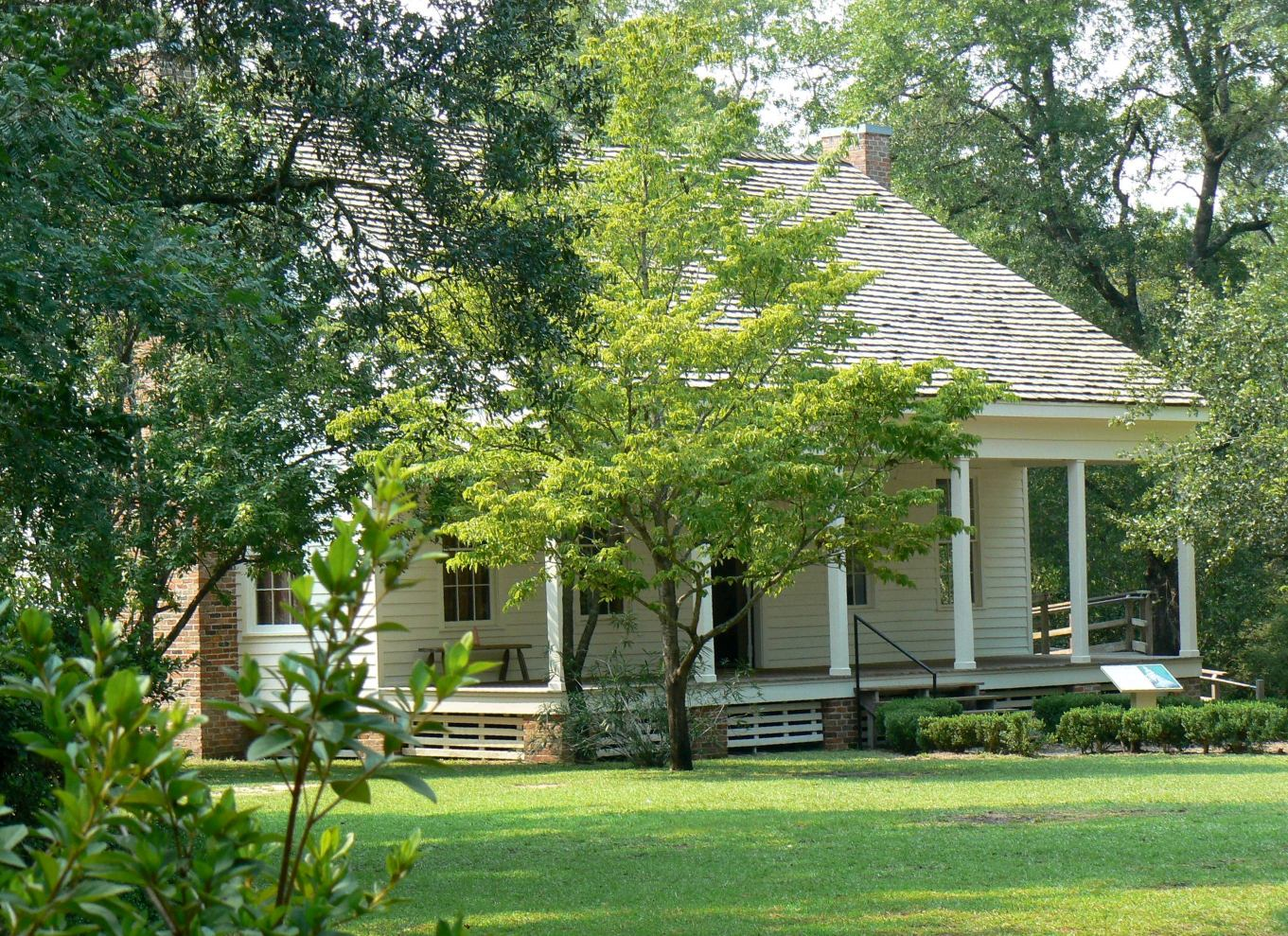 "Bellevue", once the home of Catherine Murat, Tallahassee Museum, Tallahassee FL, USA